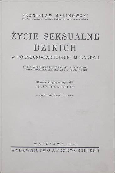 Bronisław Malinowski - The Sexual Life of Savages in North-Western Melanesia (book cover of Polish translation)